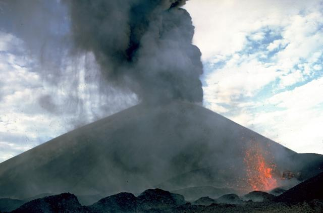 Ash falls at the left from a strombolian eruption column emanating from the summit crater of Cerro Negro volcano in 1968. At the same time incandescent spatter (lower right) is ejected from a small vent on the south flank of the cone. The 1968 eruption began on October 23 and lasted until December 15. The south-flank vent also fed a lava flow that traveled 1.5 km.